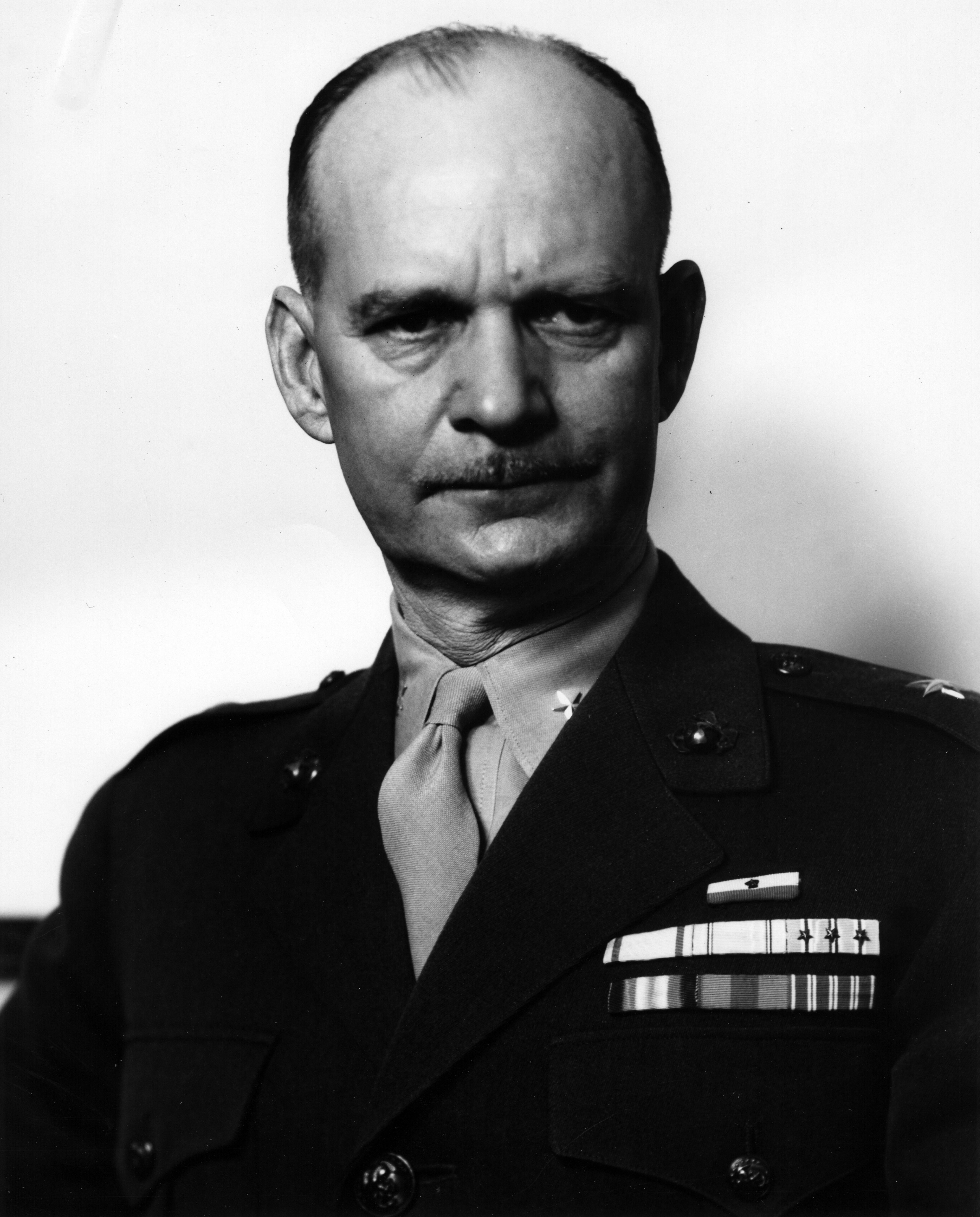 William Capers James (June 22, 1896 - September 30, 1974) was an officer of the United States Marine Corps with the rank of Brigadier General, most noted for his service as Chief of Staff, 1st Marine Division during the Guadalcanal Campaign and later as Commanding officer, Marine Corps Base San Diego.